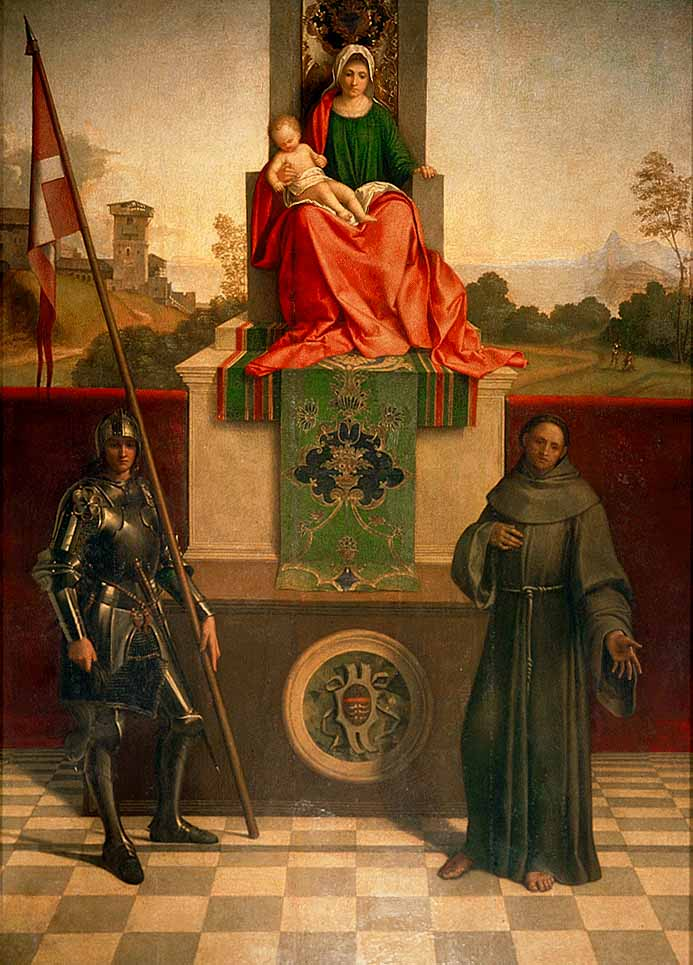 Castelfranco Madonna, Madonna and Child between Nicasius of Sicily and St. Francis